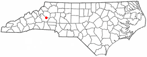 Category:North Carolina Dot Maps